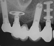 Picture of two cylindrical dental implants and two diskimplants inserted into the jaw